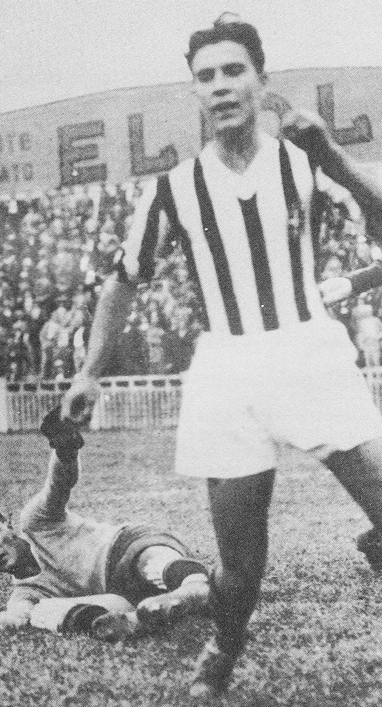 Italian footballer Felice Placido Borel (II) in action with F.B.C. Juventus in the early 1930s at the Campo Juventus in Turin.